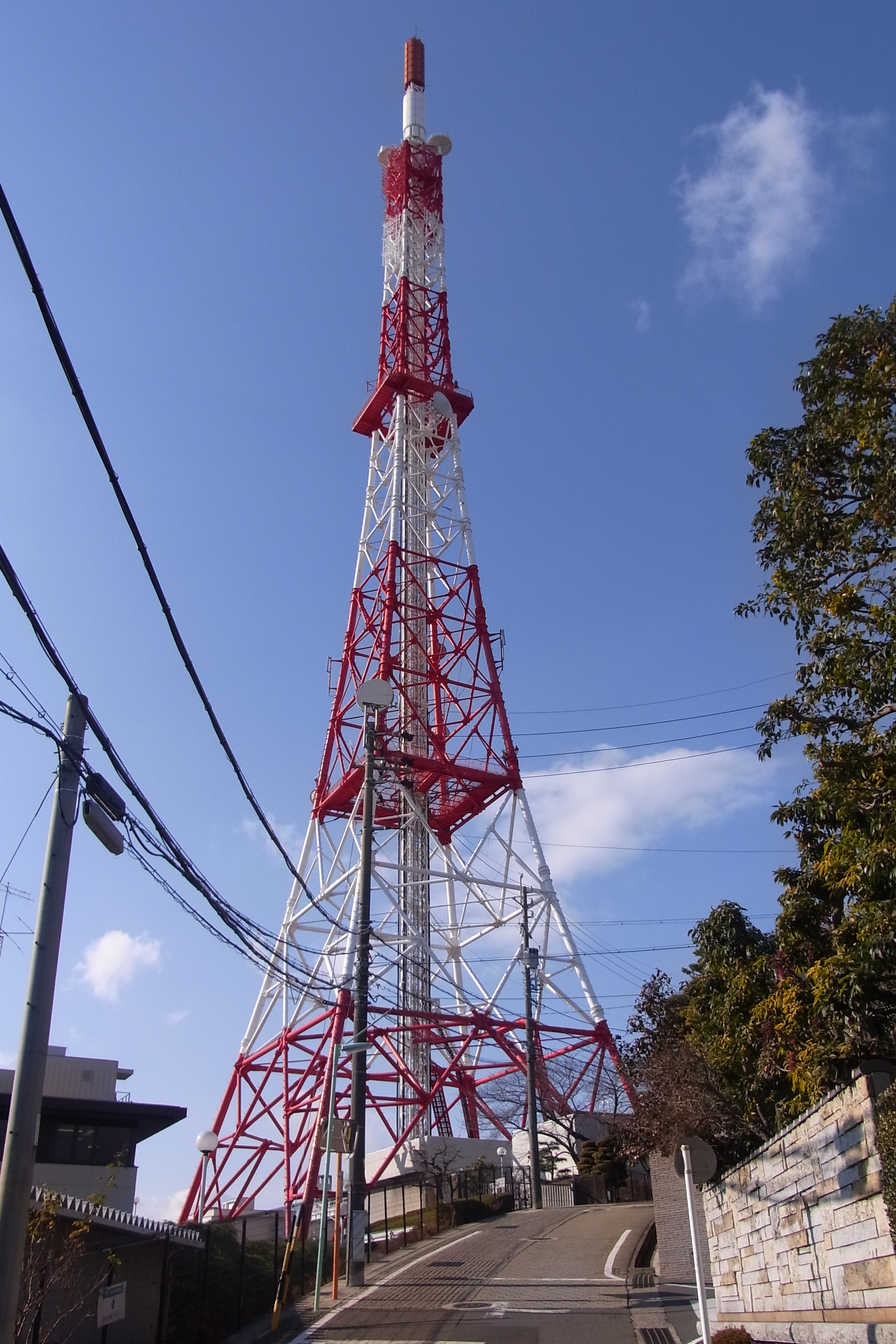 Higashiyama Tower in Showa-ku ward, Nagoya.